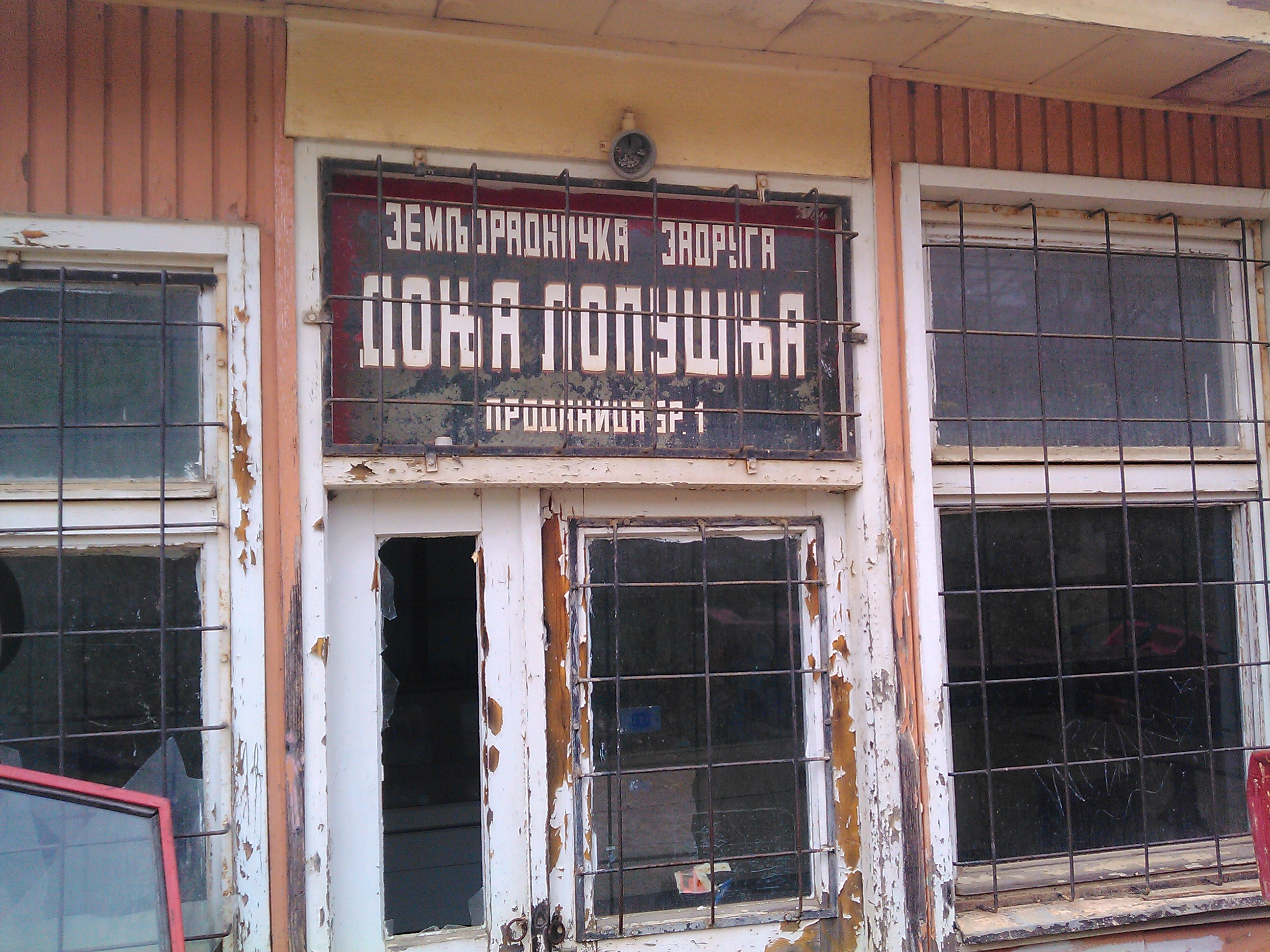 Zapuštena prodavnica Zemljoradničke zadruge u Donjoj Lopušnji-rezultat odumiranja sela.